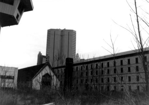 The courtyard of the historic Ohio Penitentiary. Photo taken in 1995, shortly before the prison's demolition.